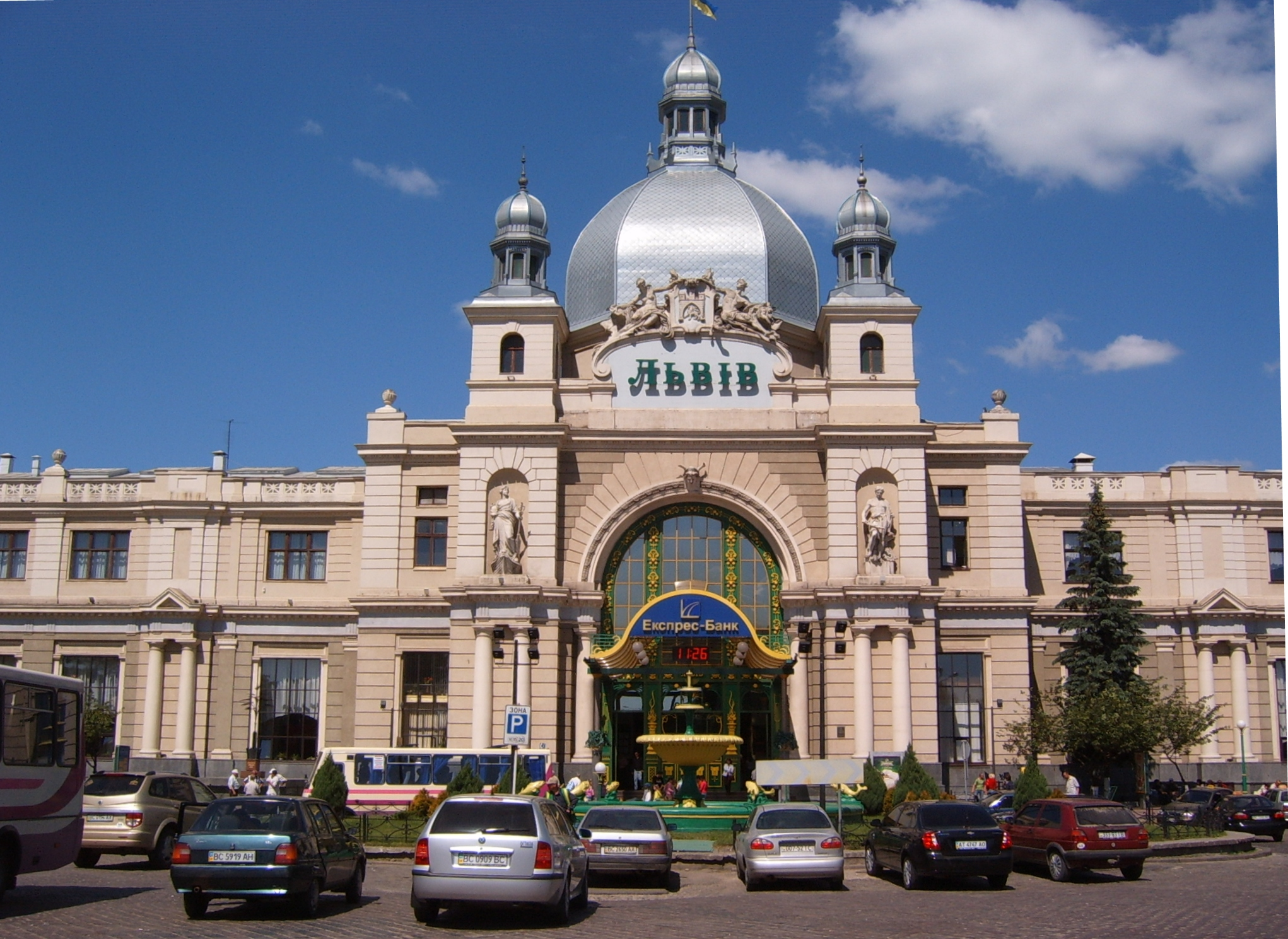 Lviv railway station, Ukraine